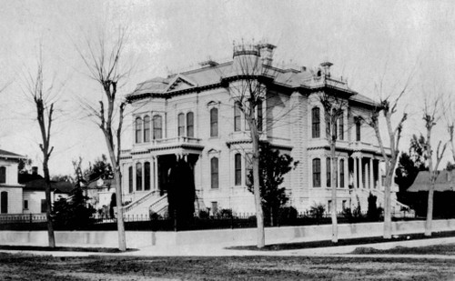 Myles and Amanda O’Connor Family home in San Jose that they gave to be used as an orphanage for girls in 1894 called the Notre Dame Institute. It would later become Notre Dame High School.